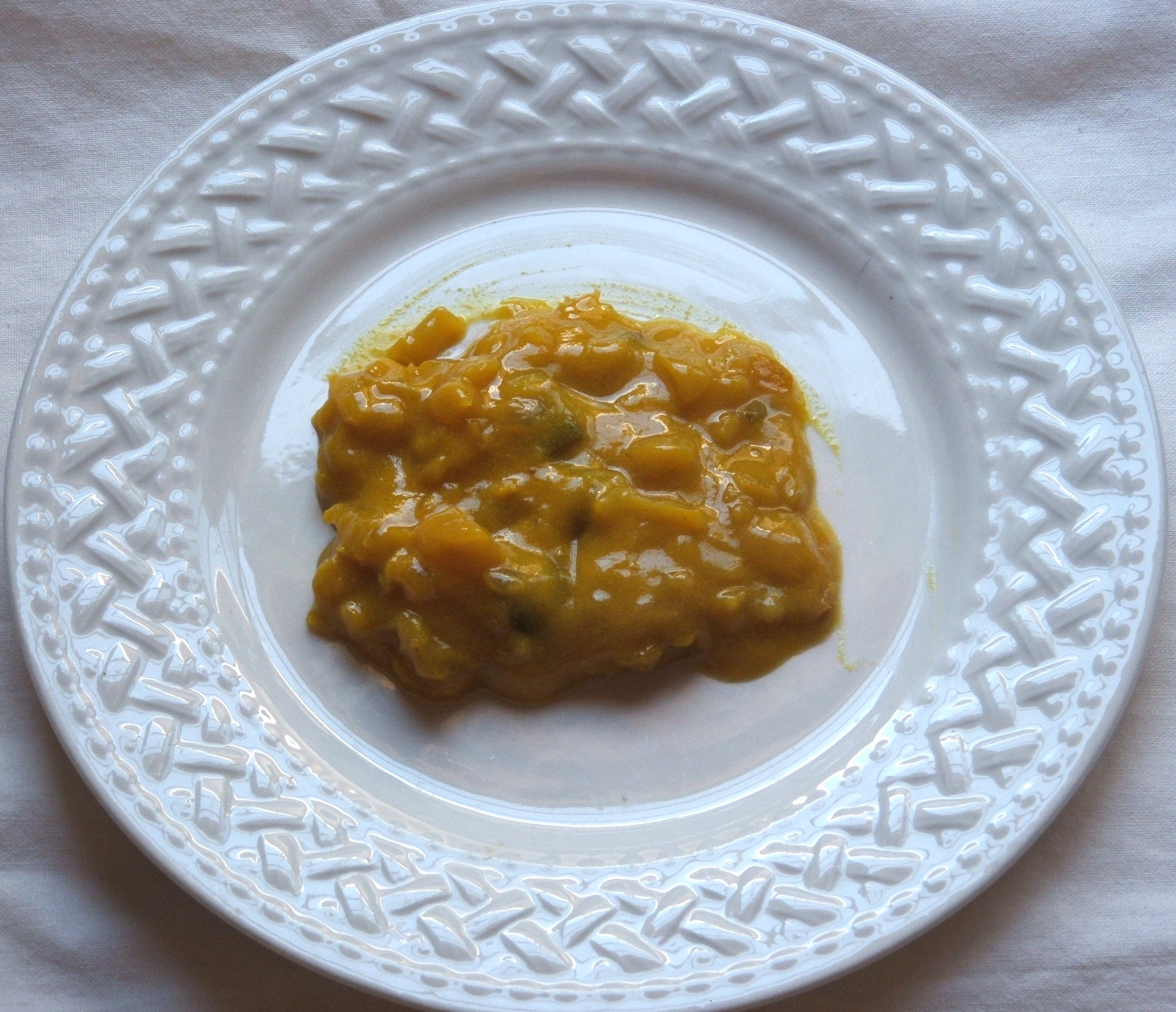 Mustard and pickle relish of cauliflower, cucumbers and onions